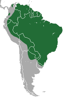 Collared Anteater (Tamandua tetradactyla) range